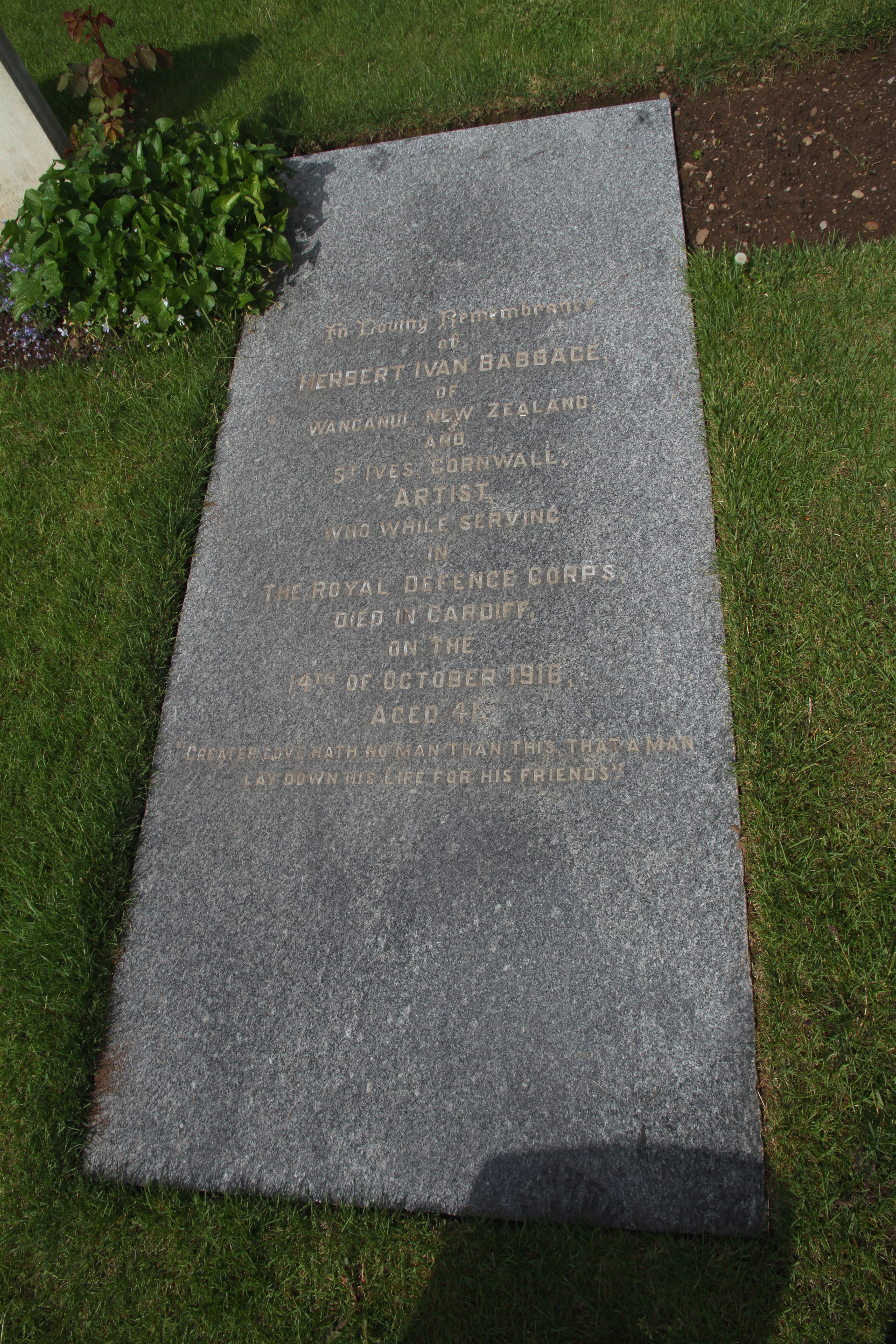 Cathays Cemetery, Cardiff: grave of New Zealander Herbert Babbage, Royal Defence Corps, in the Commonwealth War Graves section